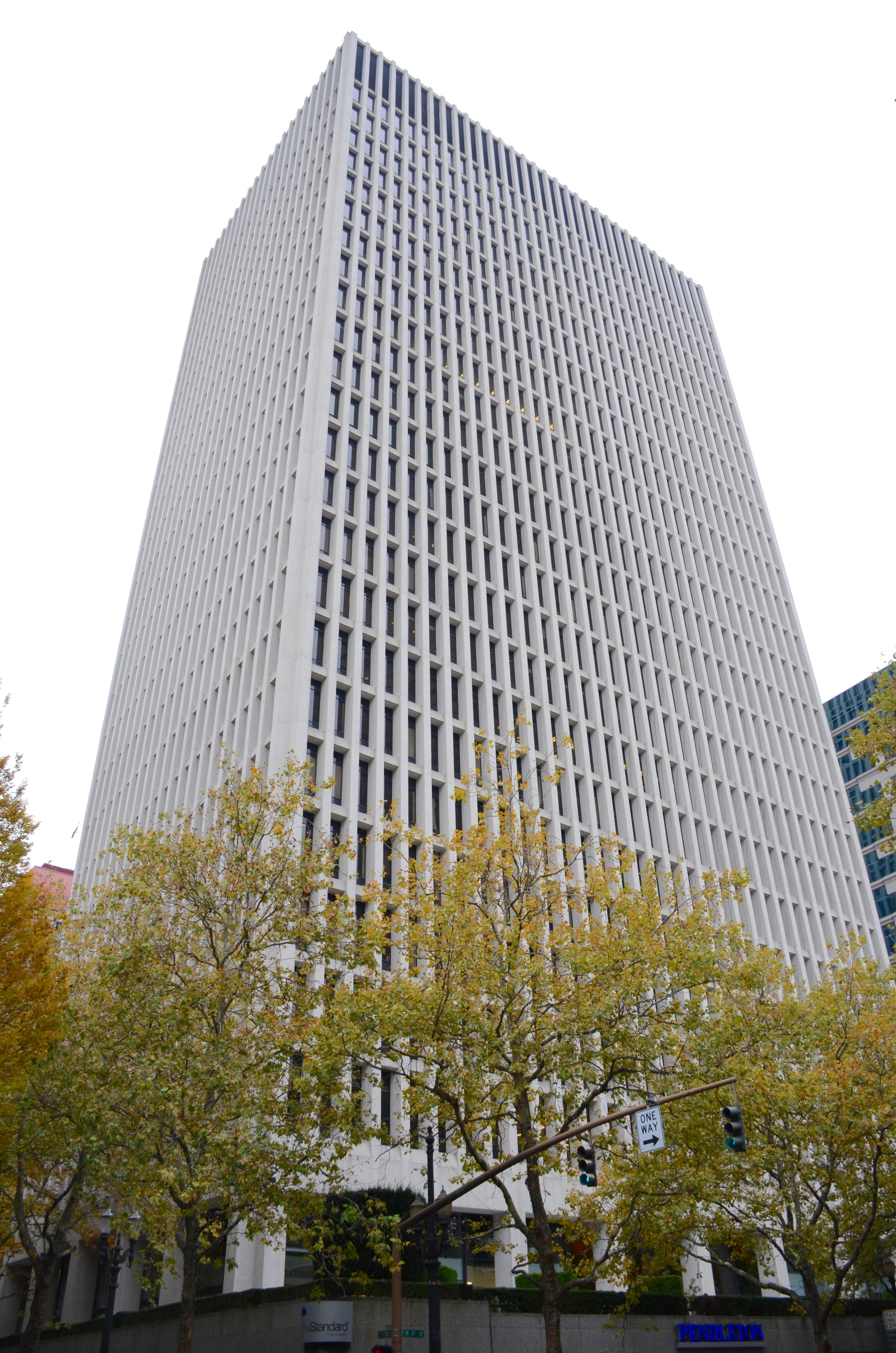 The Standard Insurance Center (originally named the Georgia-Pacific Building), in downtown Portland, Oregon, is among tallest buildings in the city (the seventh-tallest as of 2016). The 27-story building was completed in 1970. This view is from the southeast, from across the intersection of Fourth Avenue and Salmon Street.